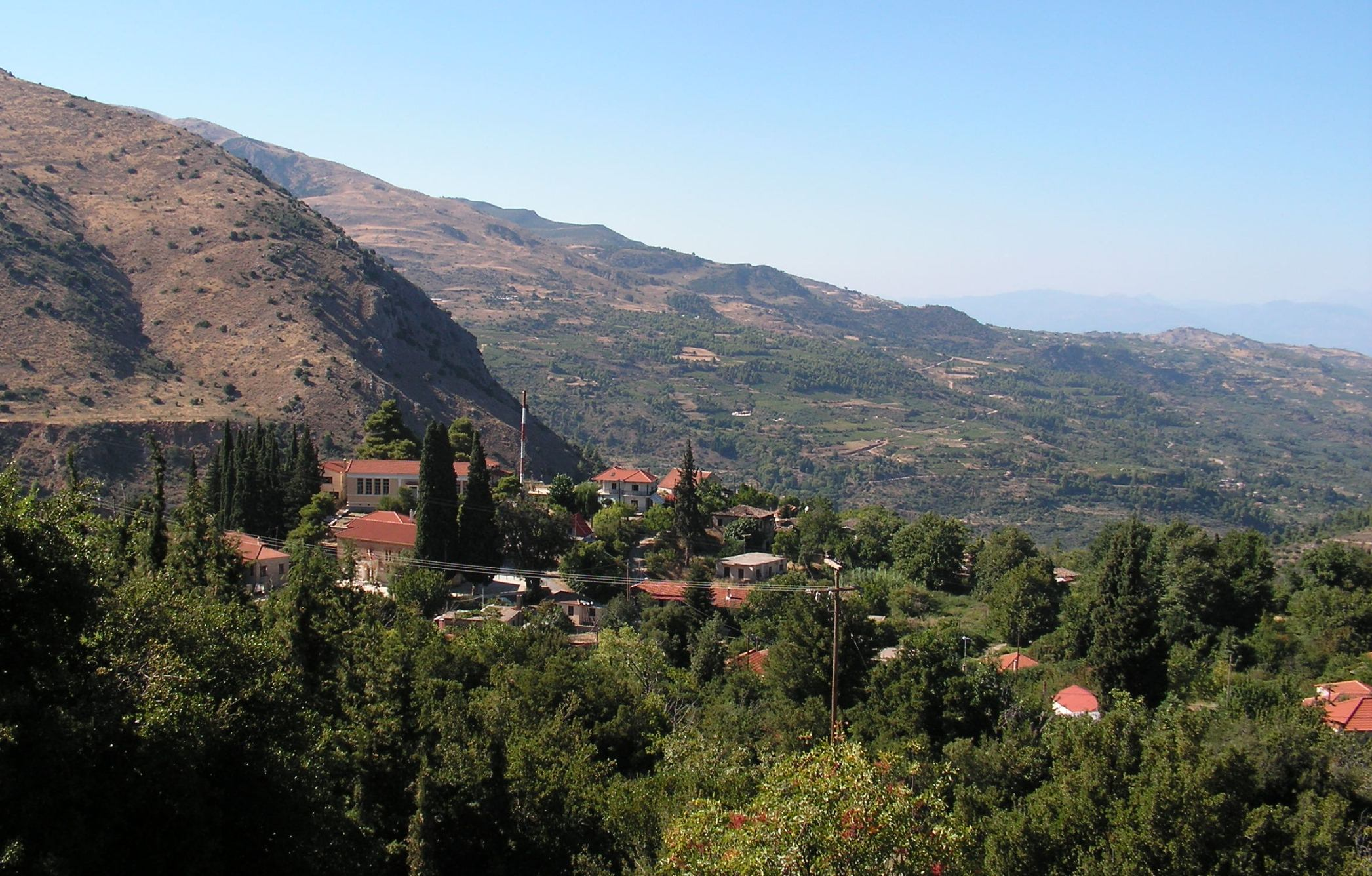 Partial view of Seliana. More specifically this is a view of the center of the village with the church and the old school.